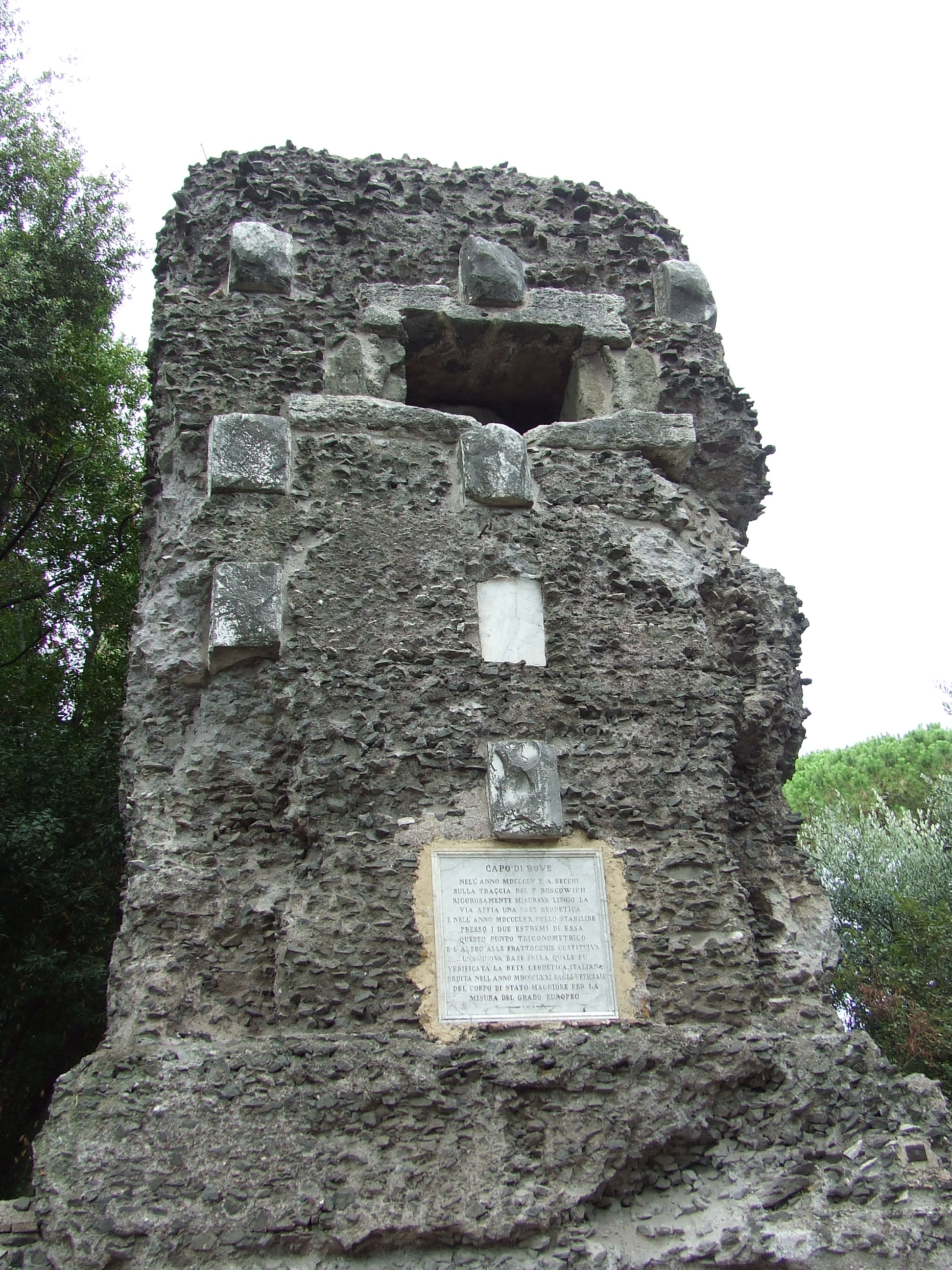 · · · · mAppiaM!Mapping the via Appia Antica, Rome, for Wikipedia, OpenStreetMap, WikiData and Wikimedia Commons